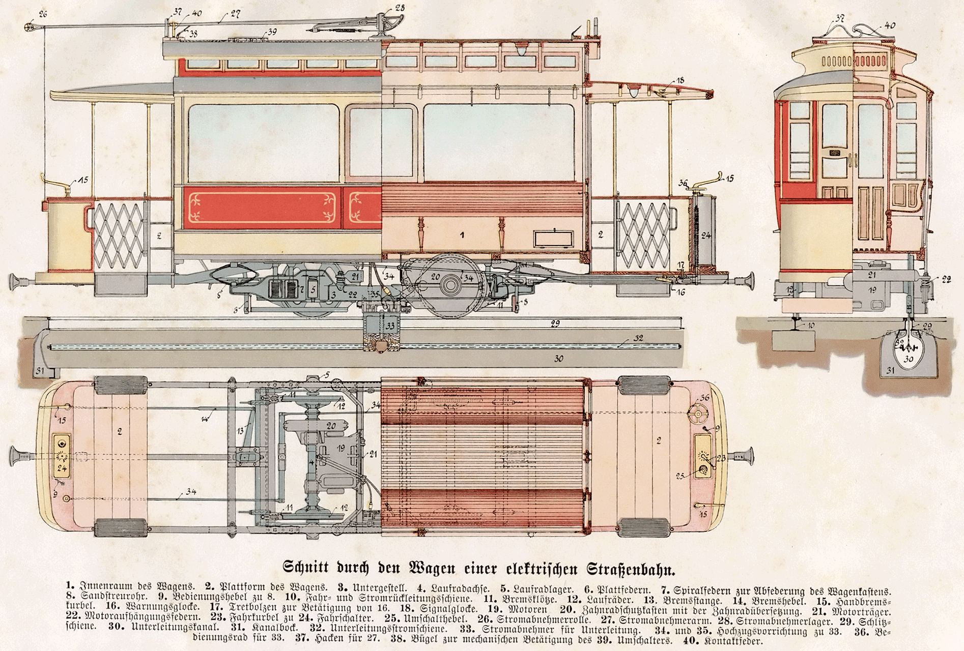 cutaway view of a tram